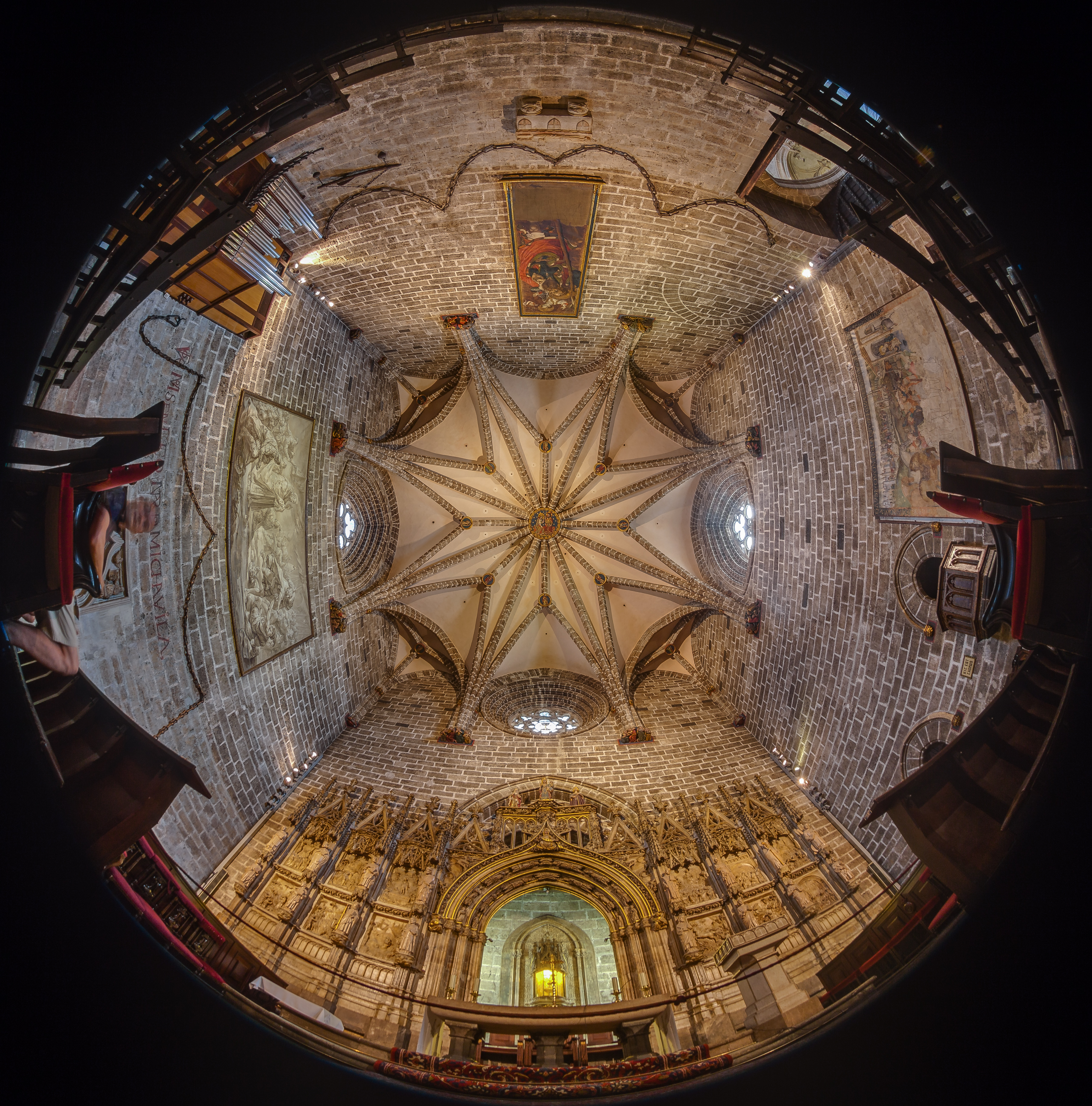 Valencia Cathedral. Valencia, Spain